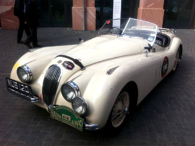 Jaguar XK120 Roadster at the 2011 Frankfurt Motor Show.